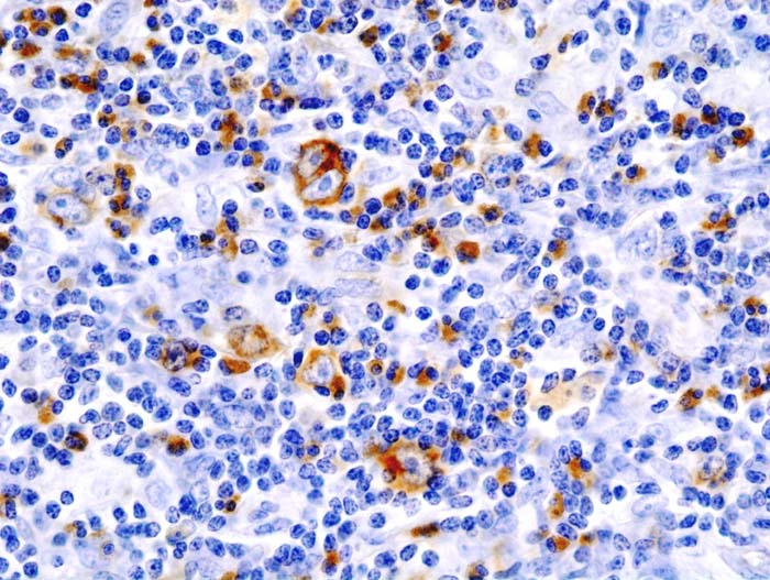 english: Histopathologic image of Hodgkin's lymphoma. CD30 (Ki-1) immunostain. The same as illustrated in the file Hodgkin_lymphoma_(1)_mixed_cellulary_type.jpg. Lymph node biopsy. It may represent a mixed cellularity type. deutsch: histopathologisches Bild eines Hodgkin-Lymphoms. Probe aus einer Lymphknotenbiospie, CD30 (Ki-1)-immunhistochemische Färbung. Wahrscheinlich die gemischtzellige Form des Hodgkin-Lymphoms.